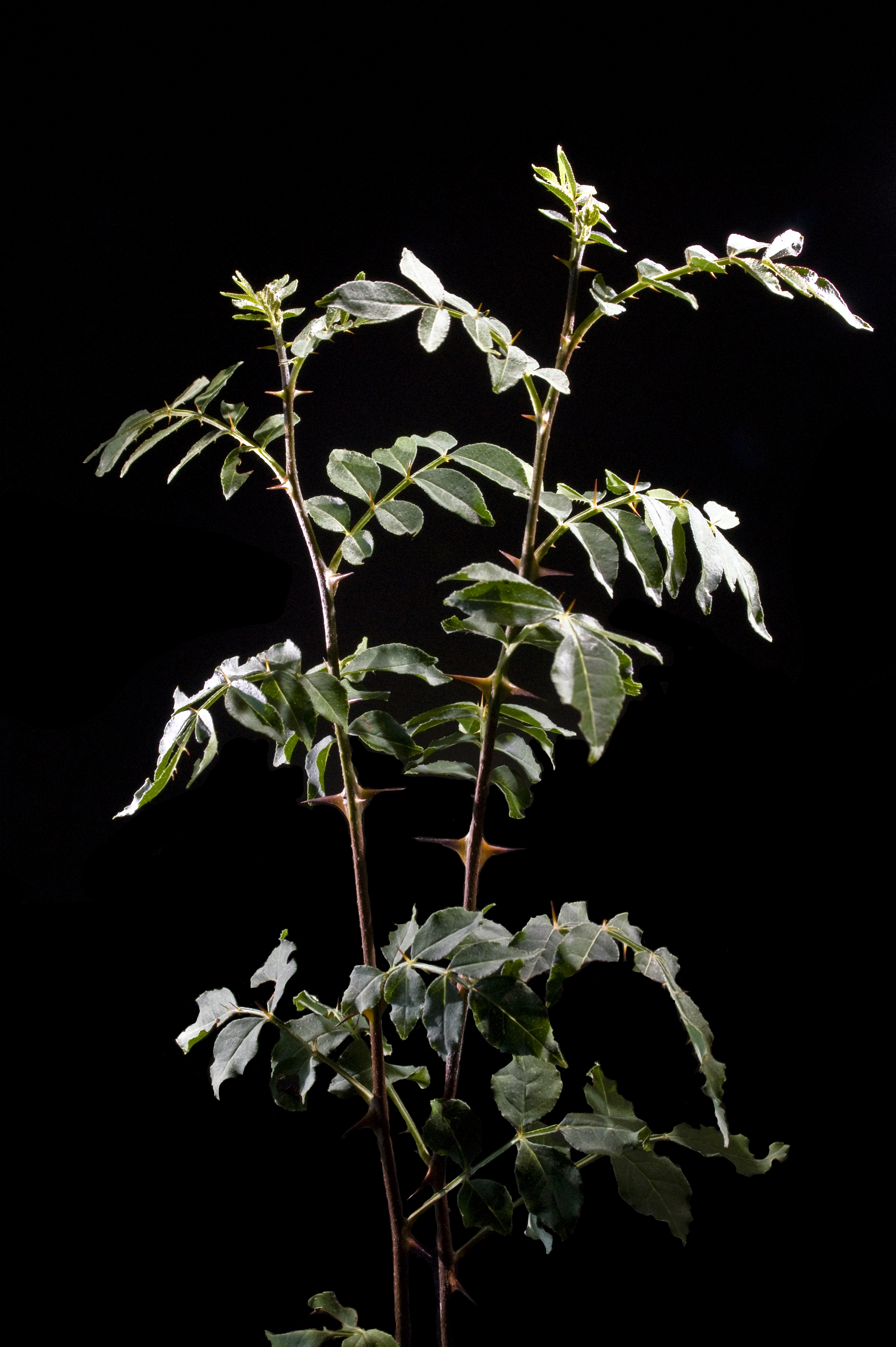 Sichuan pepper (Zanthoxylum piperitum) seedlings